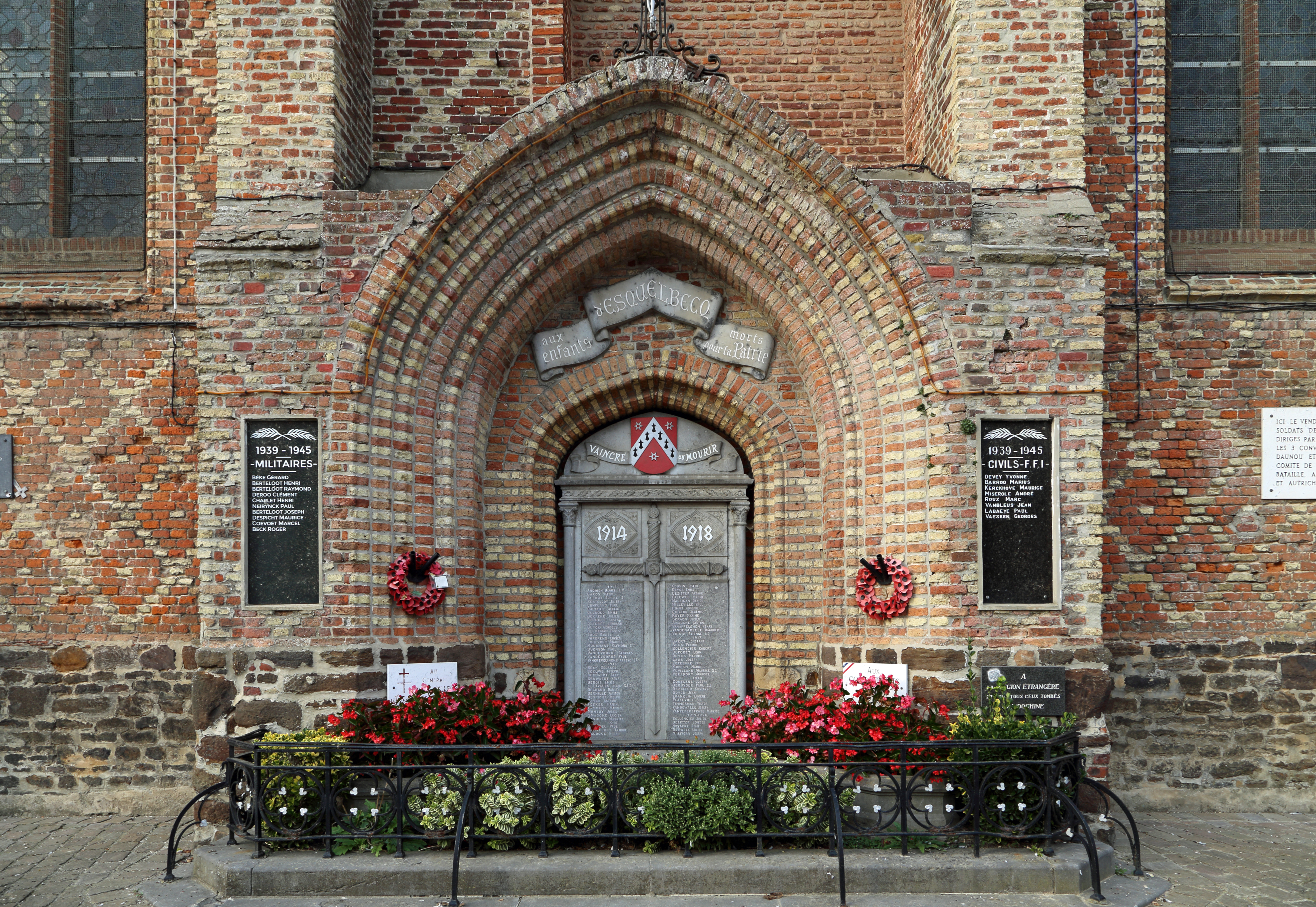 Esquelbecq (Nord department, France): war memorial (World Wars I and II)